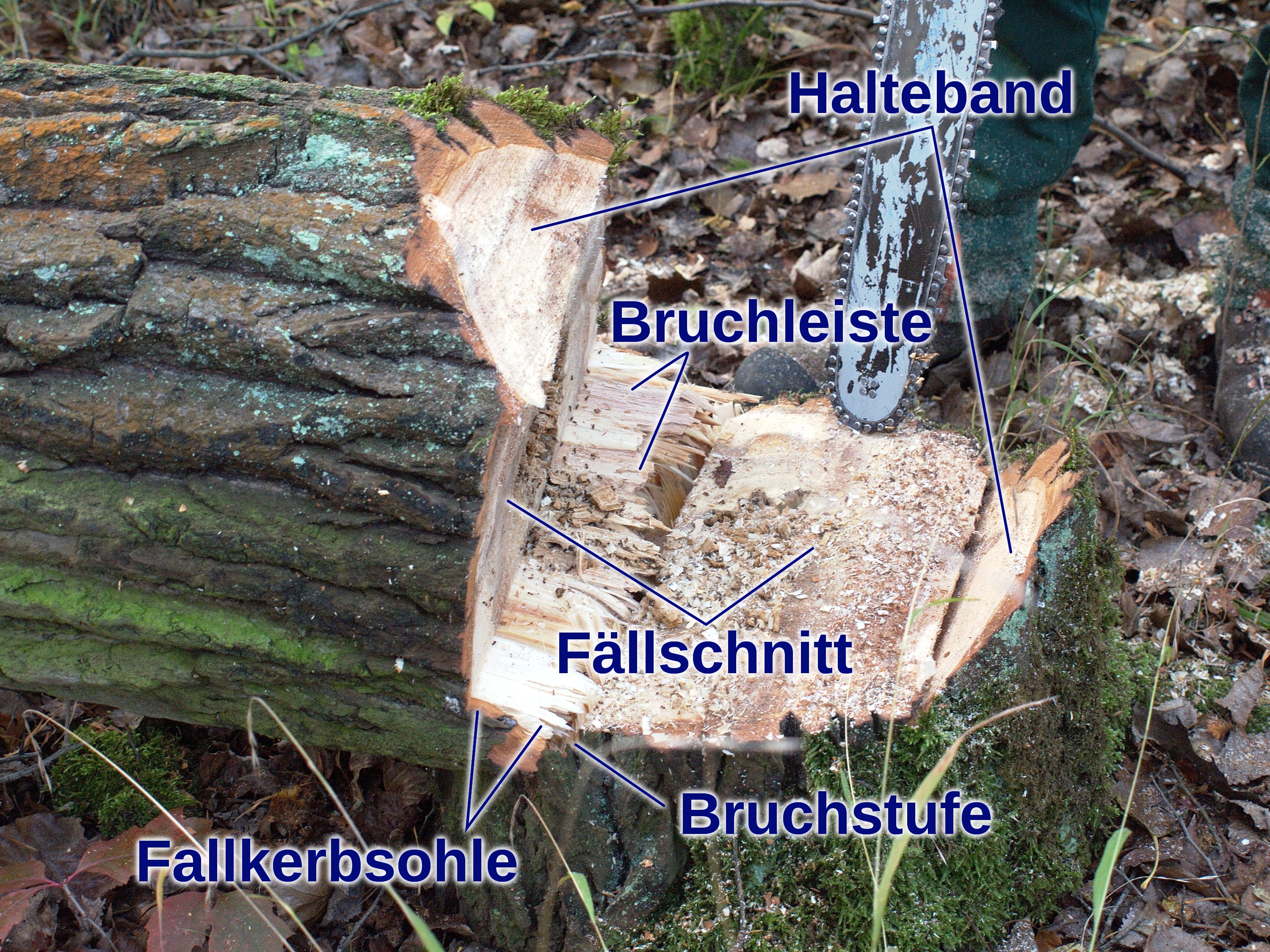 Pre-inclined poplar tree - view after cut.